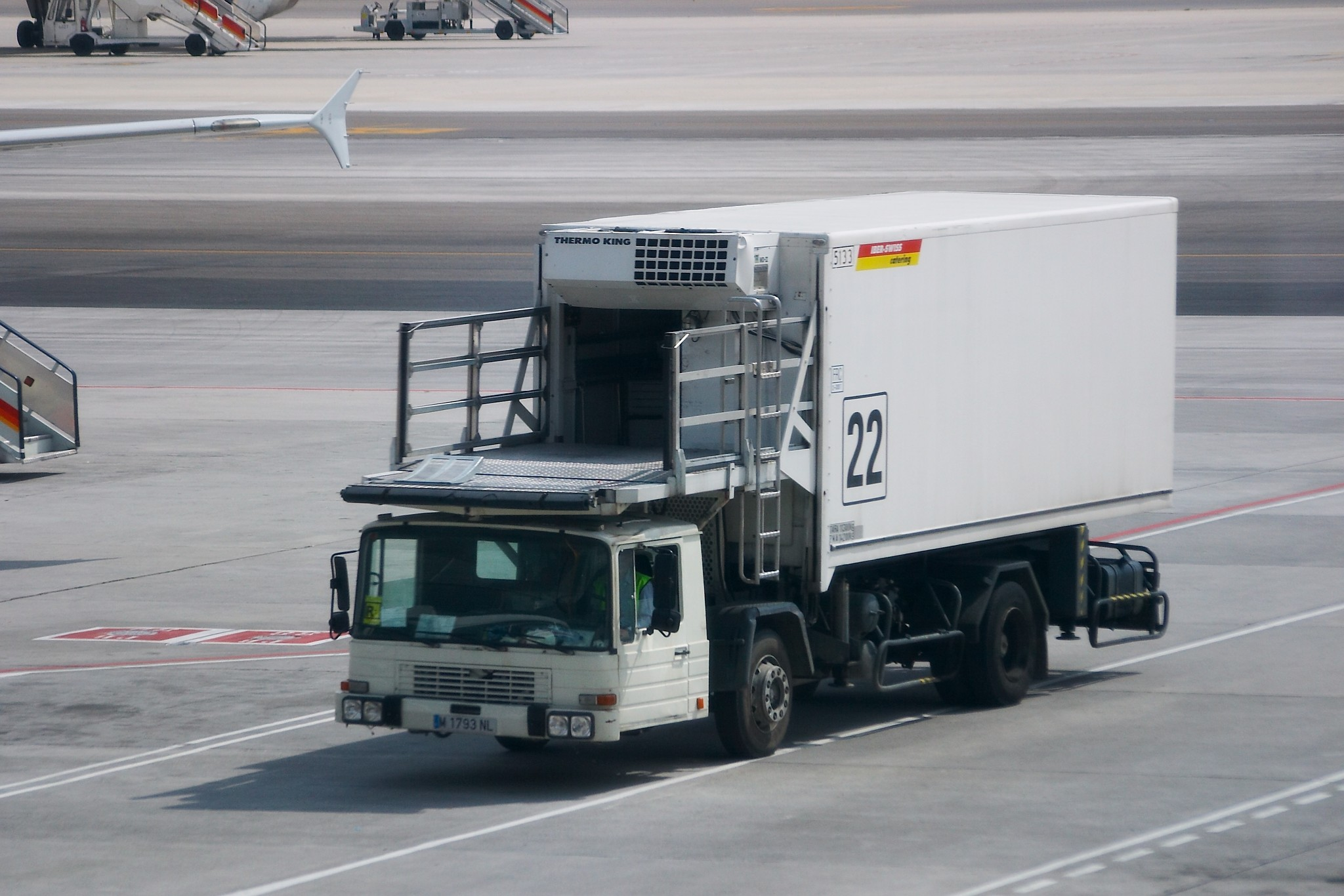 Iberswiss catering truck at Madrid Barajas airport, Spain.